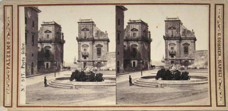 Sommer (1834-1914) & Behles (1841-1924) -"Palermo. Porta Felicea Gate". Stereo card. Catalogue number: 517.